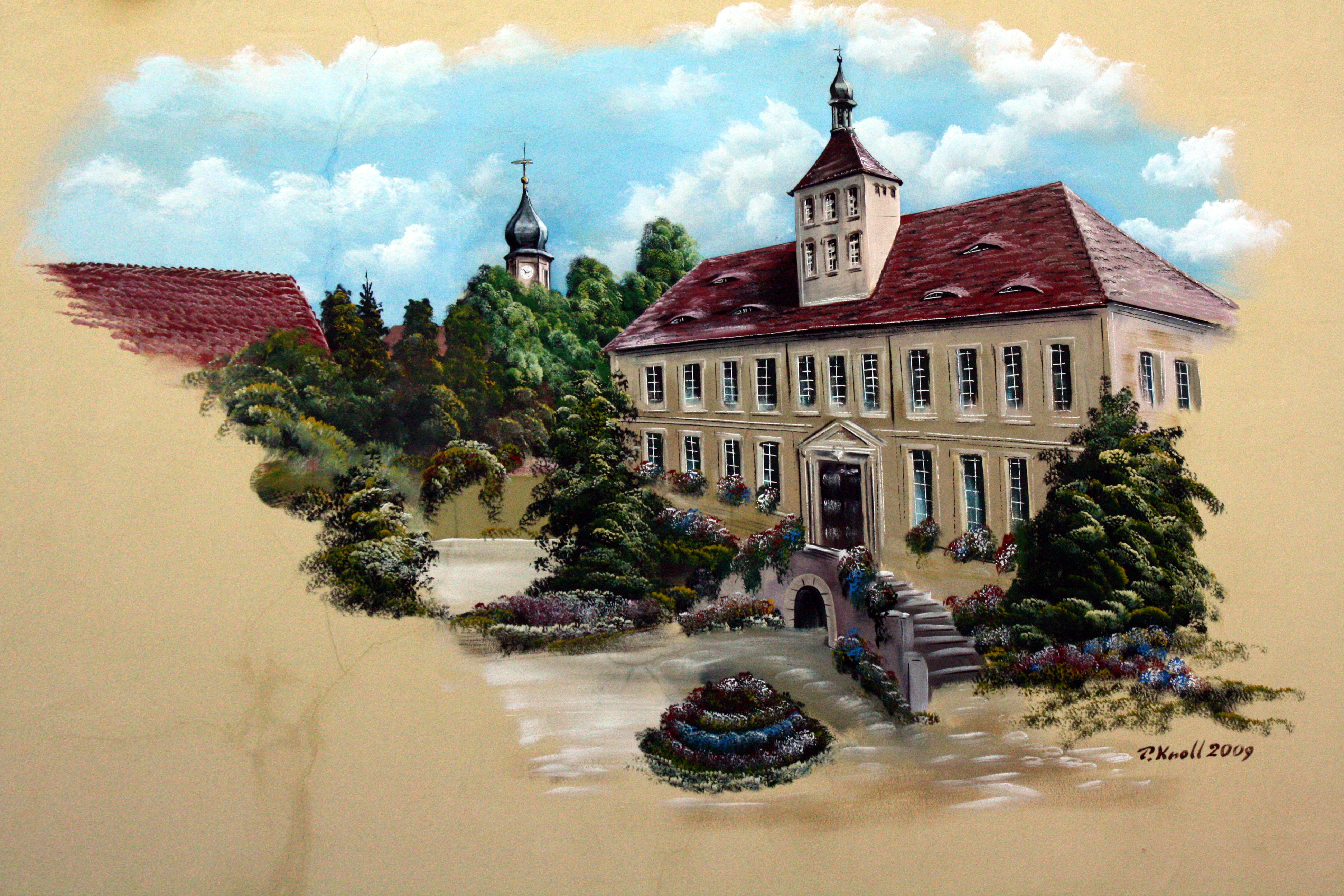 Picture of Pölzig castle near Gera/Thuringia, artist was P. Knoll in 2009